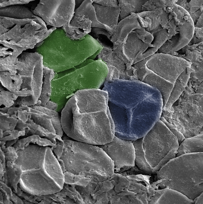 A spore tetrad (green) and trilete spores (blue, ~30-35μm diameter) from a late Silurian sporangium (Burgsvik beds, Sweden). Spore genus is Scylaspora.